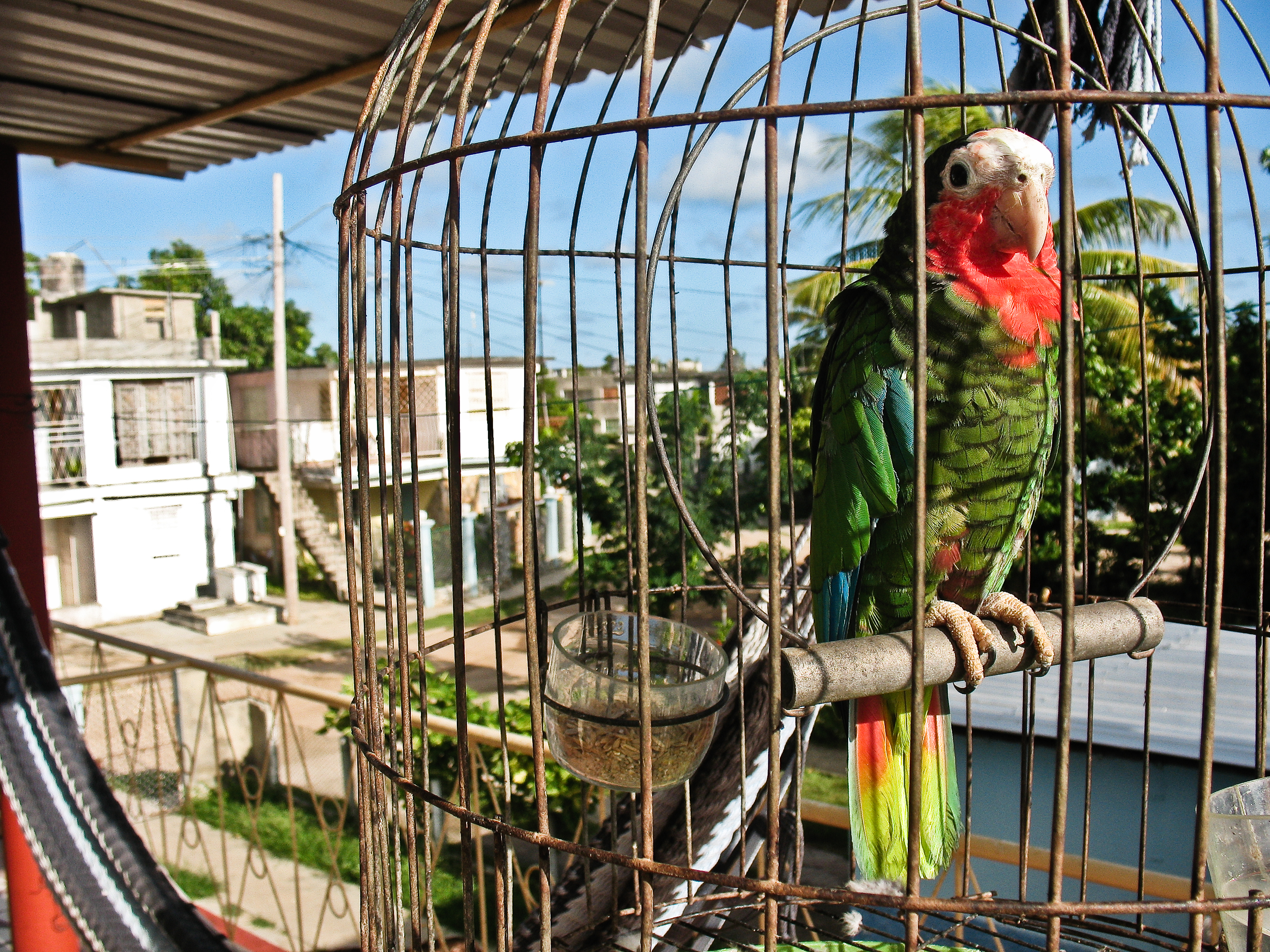 A Cuban Amazon in Isla de la Juventud, Cuba. It is in a small round cage on a balcony.